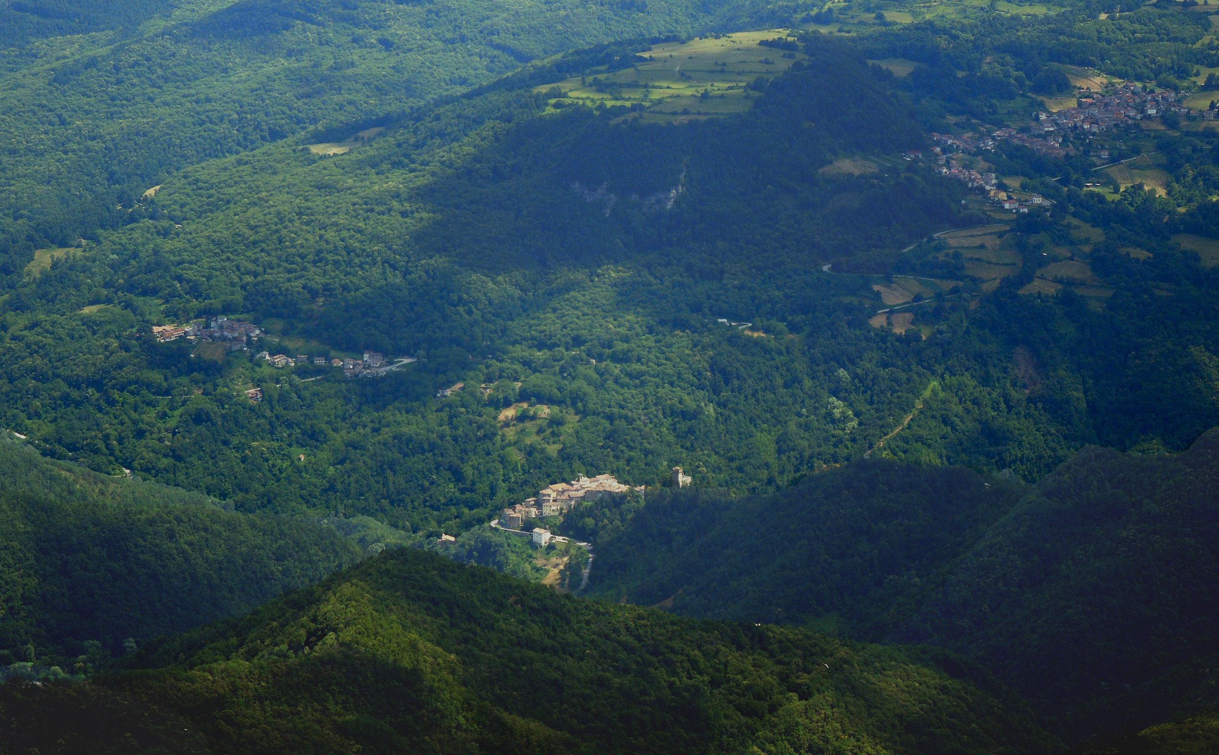 The Valley of Tronto river seen from the mountains of Monte Vettore in Italy. In the left is the small village Faete, in the middle Rocca di Arquata del Tronto with the old castle near the river and in the hills Spelonga (← Italian Wikipedia article).